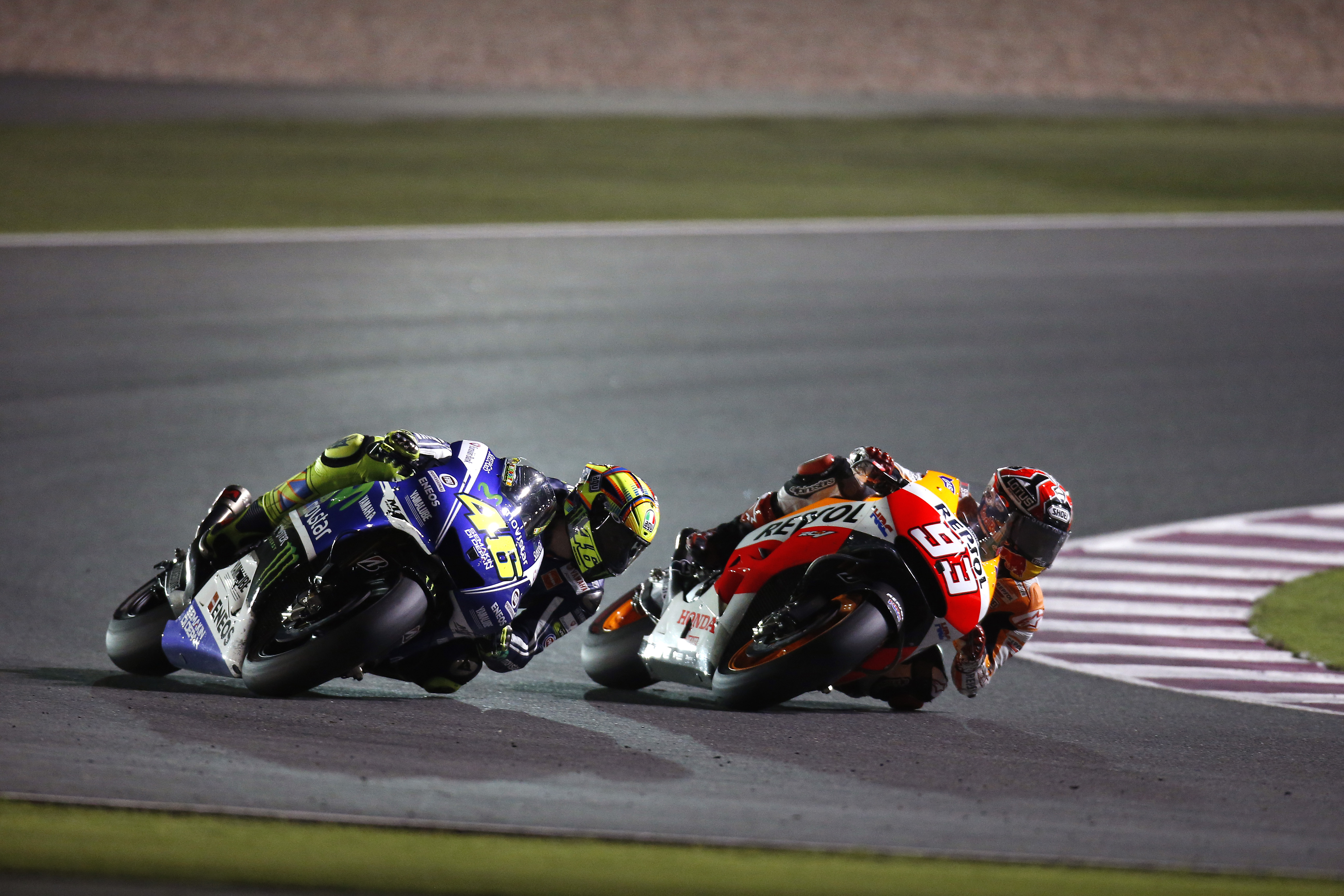 Marc Márquez, riding his Repsol Honda, battling with the Movistar Yamaha of Valentino Rossi at the 2014 Qatar Grand Prix.